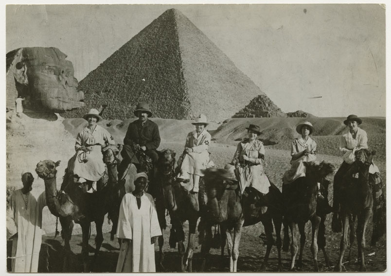 Description: AZMU nurses and physicians on camels in Egypt en route to Palestine in July 1918 Creator/Photographer: Unidentified Photographer Medium: Black and white photographic print Dimensions: 14 x 20 centimeters Date: July 1918 Persistent URL: Collection: Hadassah Collection on Long Term Loan to the American Jewish Historical Society Repository: American Jewish Historical Society Rights Information: No known copyright restrictions; may be subject to third party rights. For more copyright information, click here. See more information about this image and others at CJH Digital Collections. To inquire about rights and permissions, or if you have a question regarding the collection to which the image belongs, please contact the Reference Department of the American Jewish Historical Society by email. Digital images created by the Gruss Lipper Digital Laboratory at the Center for Jewish History